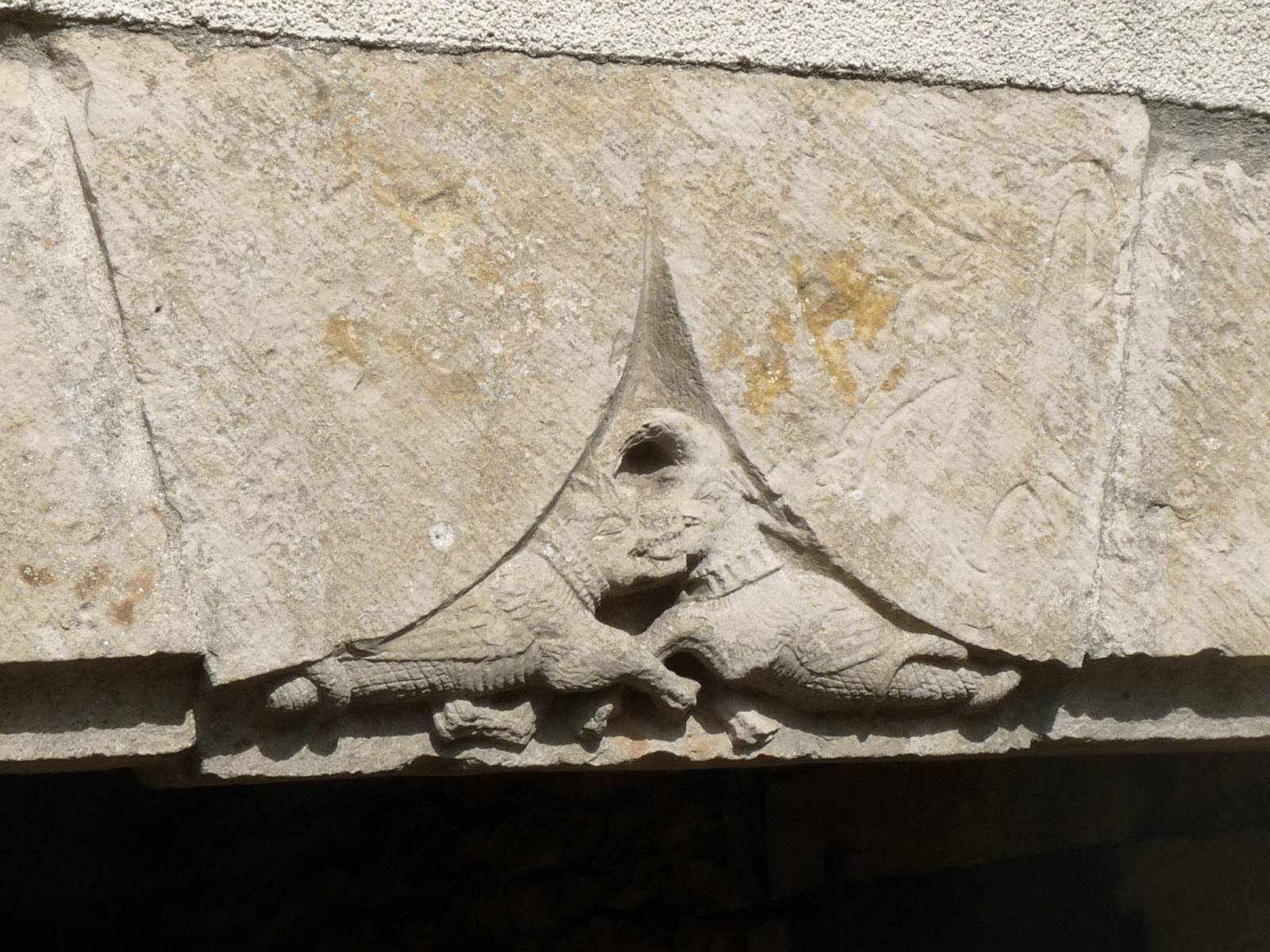 sculpture, upper part of the village of Nanteuil-en-Vallée, Charente, SW France